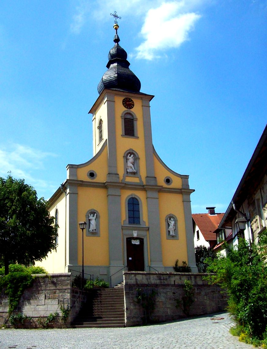 The baroque church "St. Andreas and St. Katharina" in Neubrunn